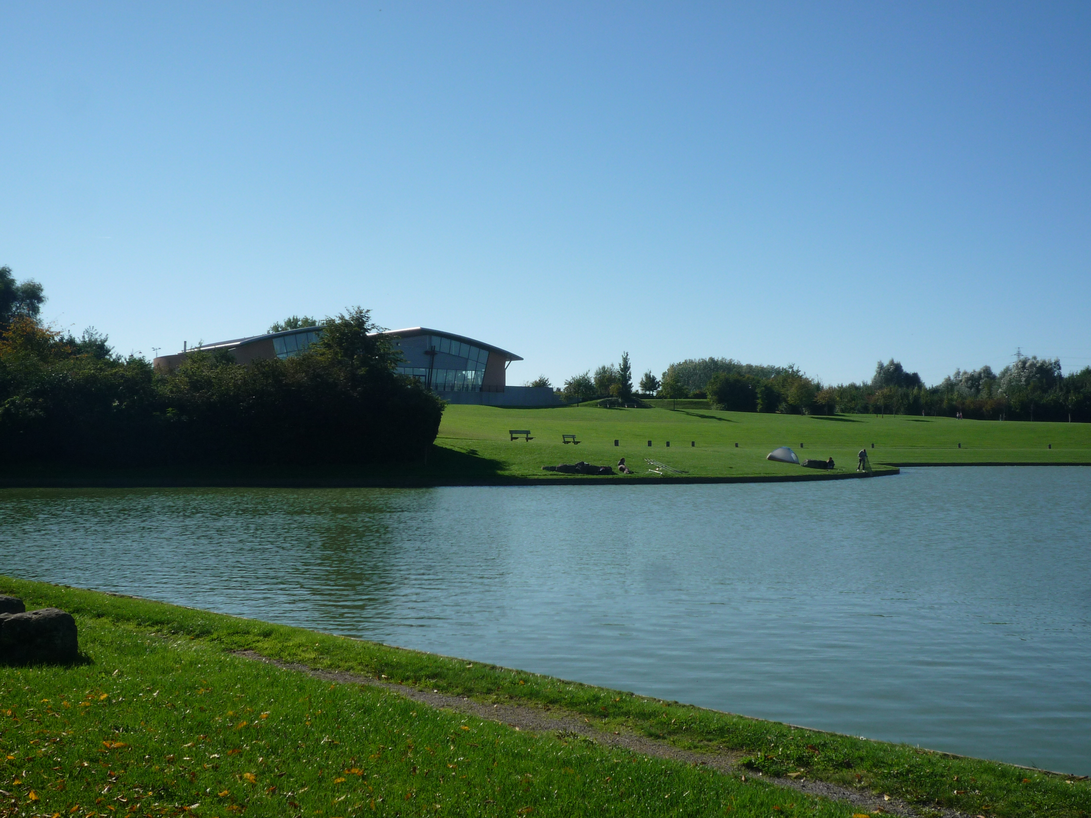 Caudry, Nord-Pas-de-Calais, France.